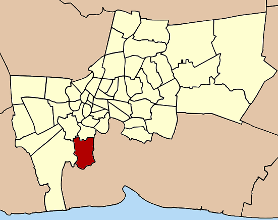 Map of Bangkok, Thailand, highlighting the district (khet) Thung Khru (ทุ่งครุ)